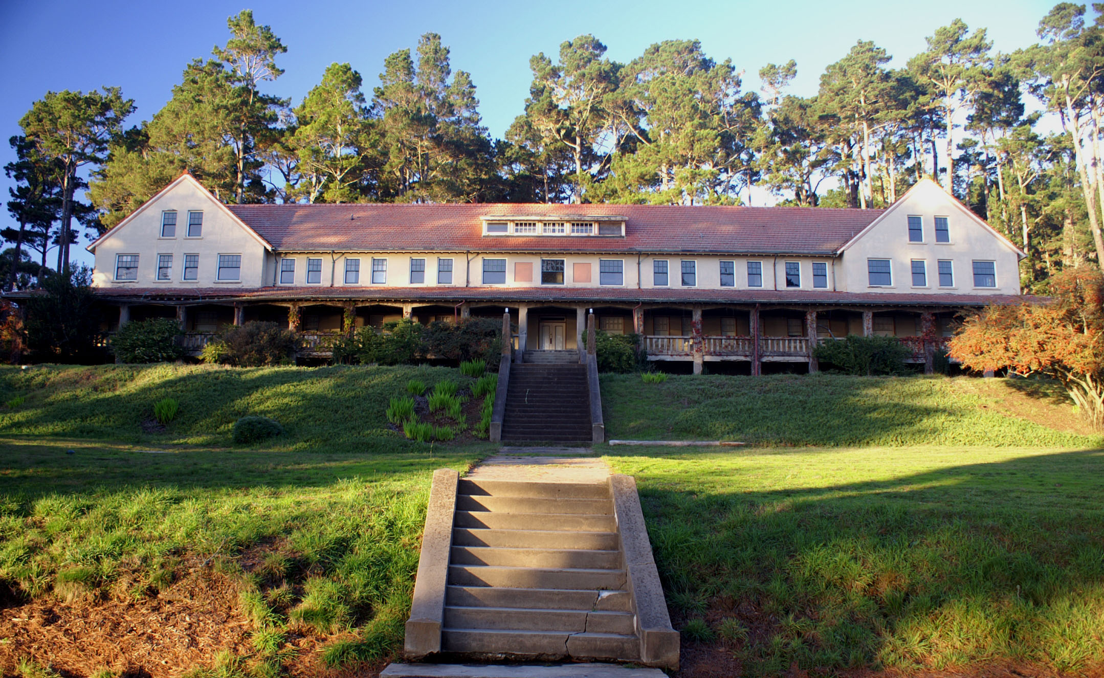 Marconi Conference Center in Tomales Bay, Marin County, Northern California.